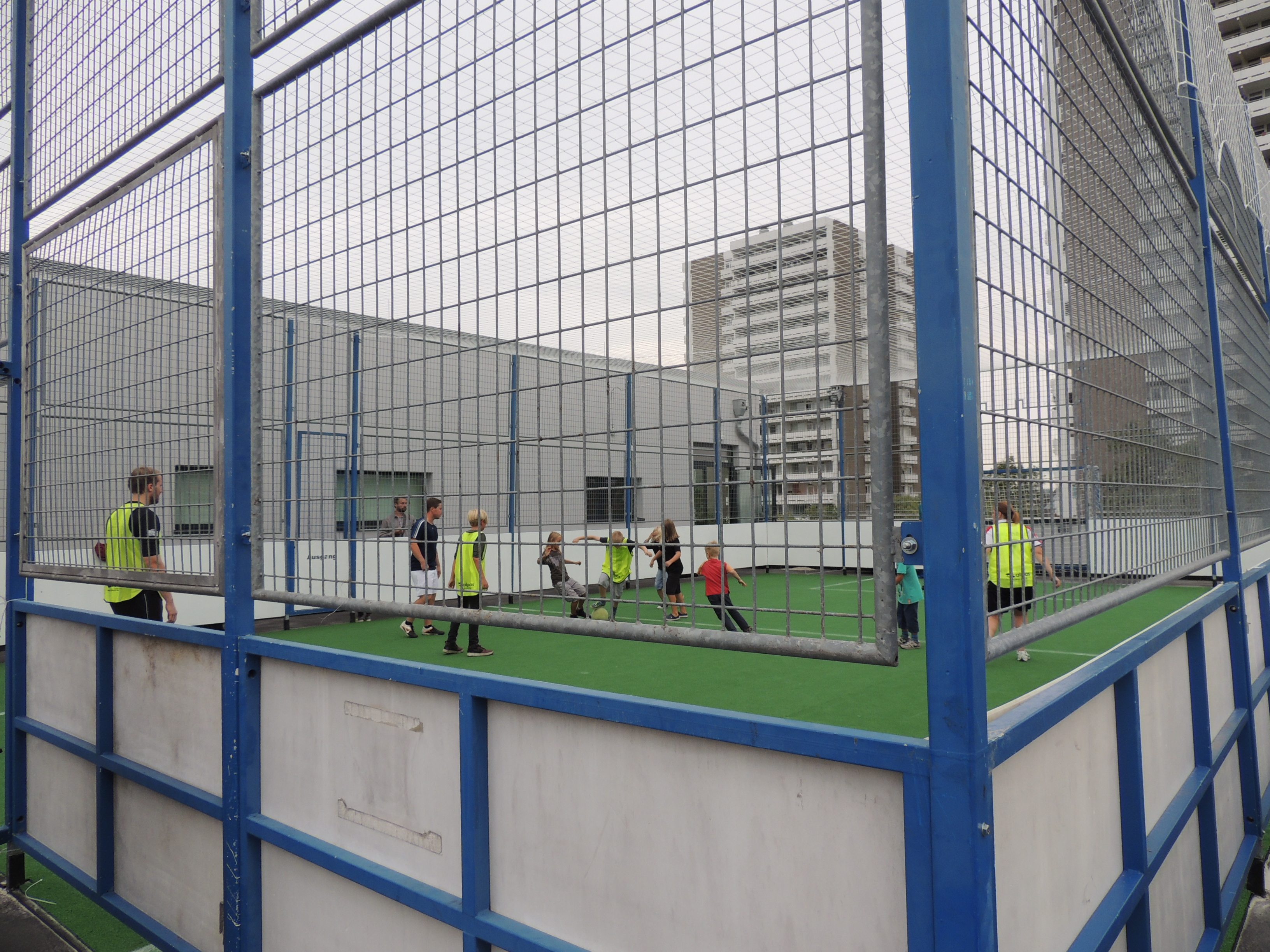 FunCourt at the new gymnasium of the Turngemeinde Bornheim in the Inheidener Street in Frankfurt am Main-Bornheim